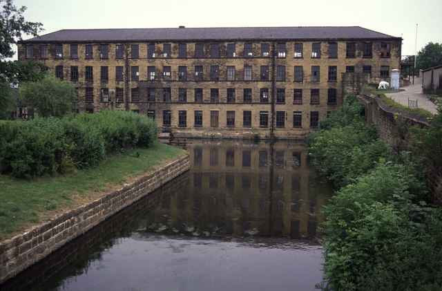 Armley Mills, Leeds This current mill replaced an earlier mill that in its turn had been built in 1788 as reputedly the largest fulling mill in the world. This structure was built 1805-7 by Benjamin Gott as a 4 storey, 23 bay "fireproof" mill. The earliest known such structure in the woollen branch and the oldest surviving Yorkshire example of the type in all branches. It is now home to the leeds Industrial Museum.